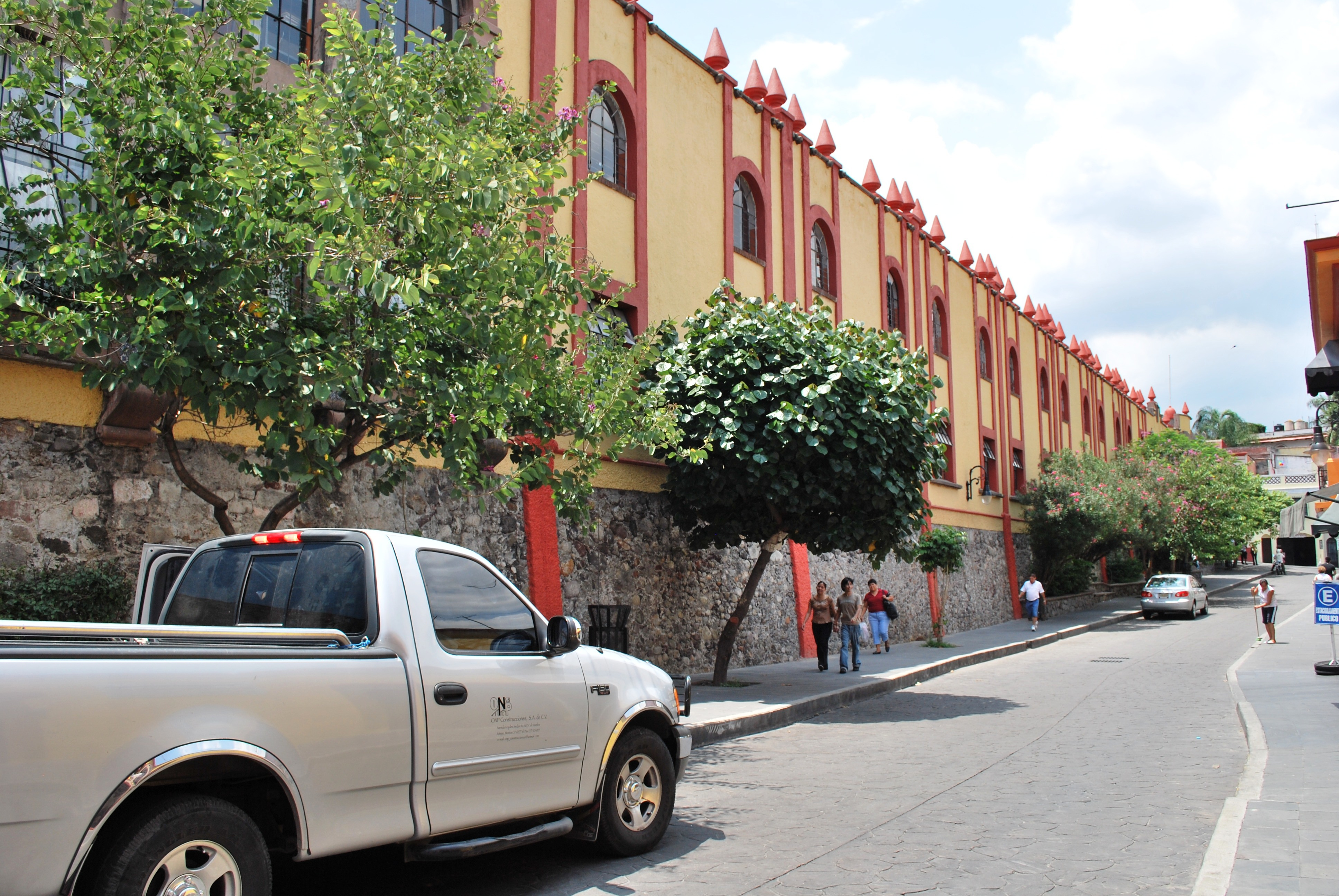 Profesor Gregorio Torres Primary school at Nezahuacoyotl and Miguel Hidalgo Street in Cuernavaca, Morelos, Mexico